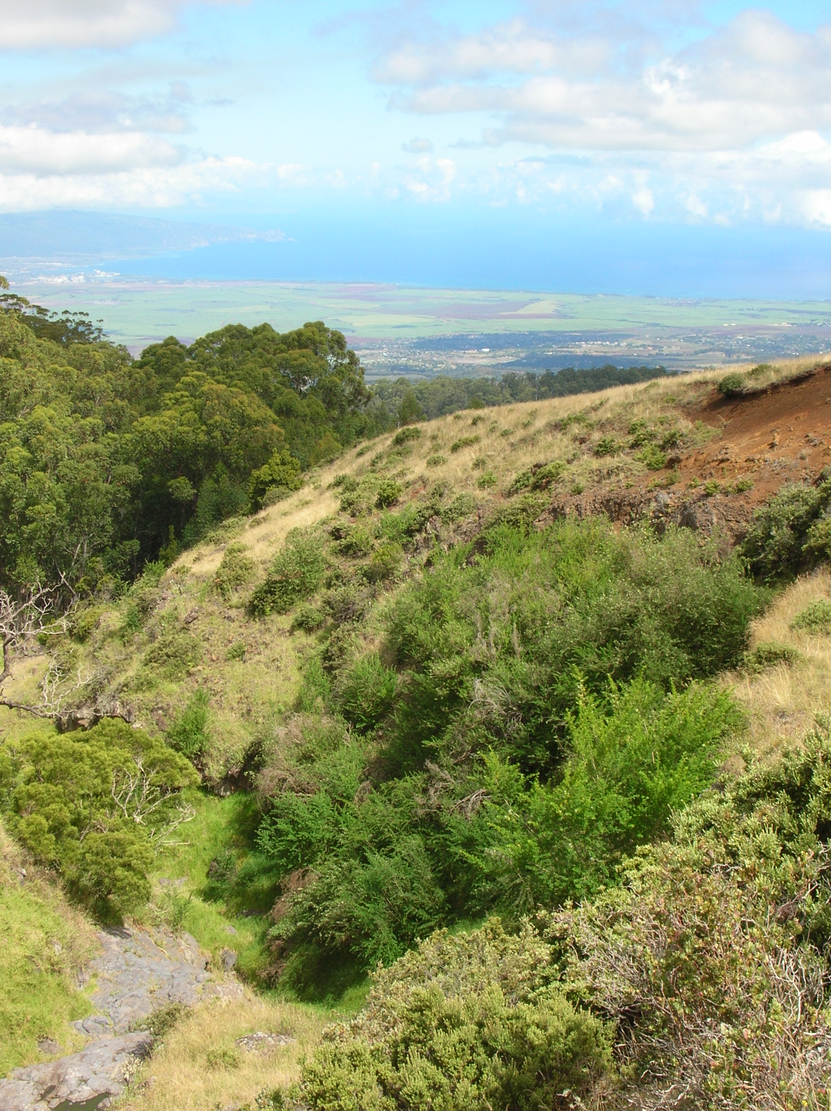 Cytisus palmensis (habit). Location: Maui, Pohakuokala Gulch